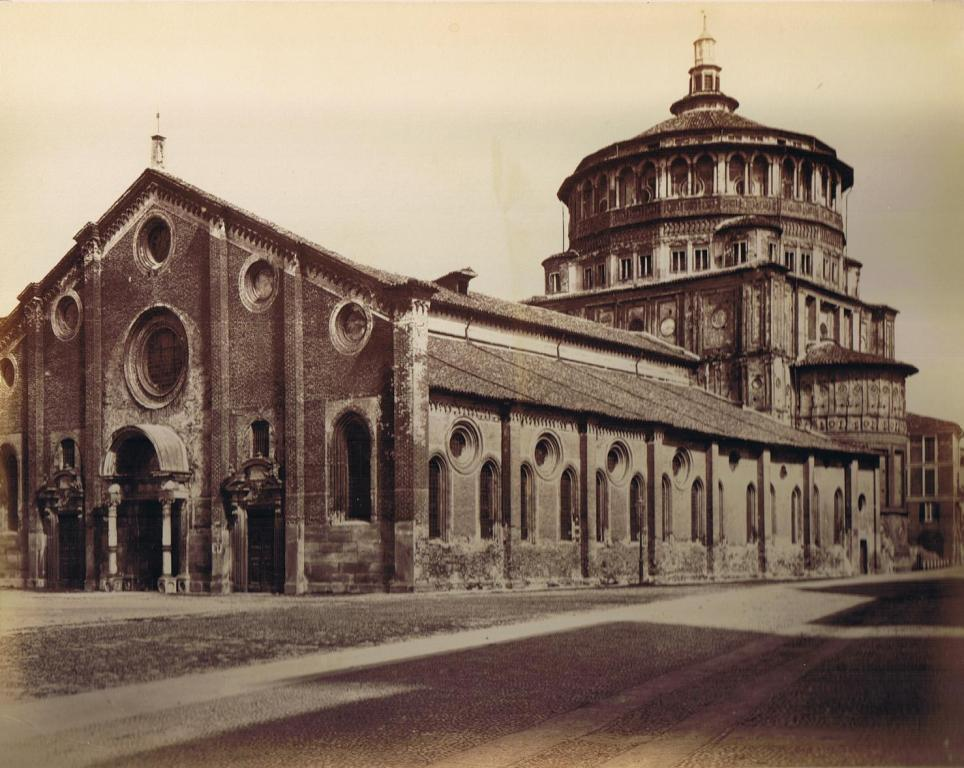 albumenprint 19.7 x 25.2 cm